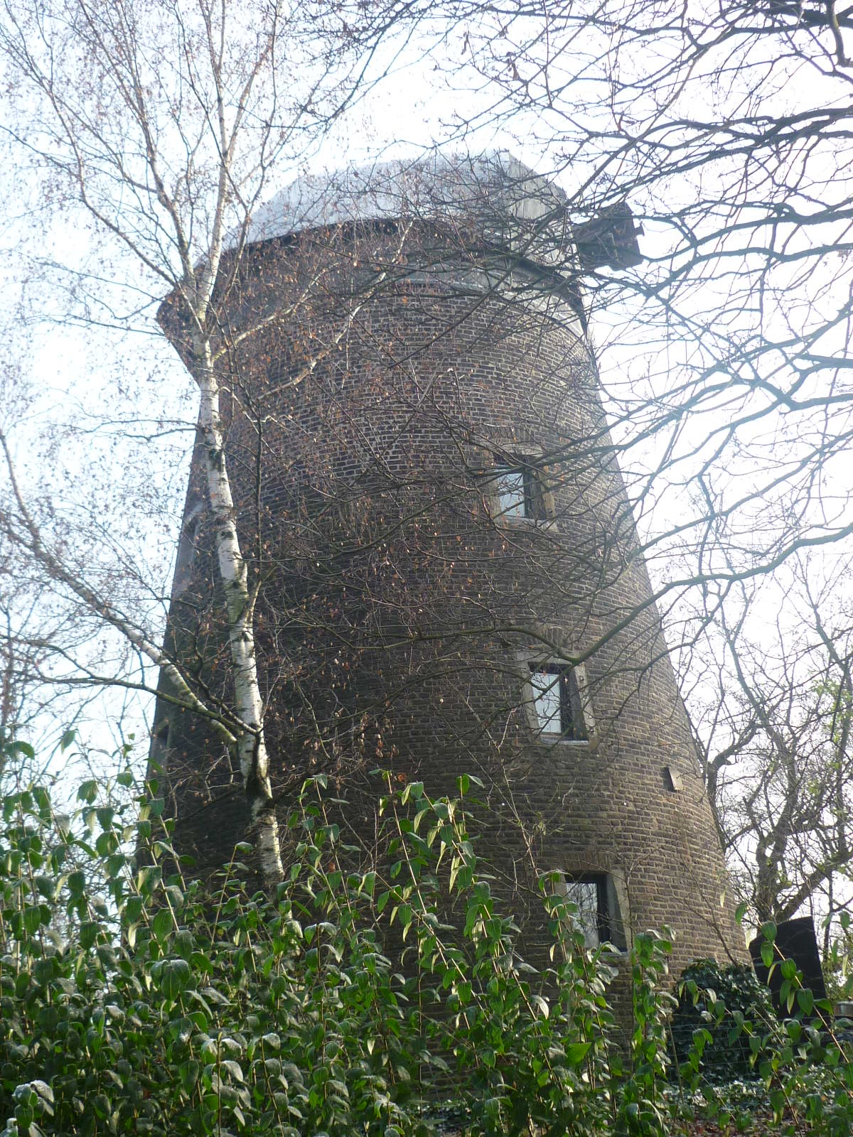 The Heidbergmühle (engl. Heather Hill Mill), a windmill in Lank-Latum, part of Meerbusch, Germany